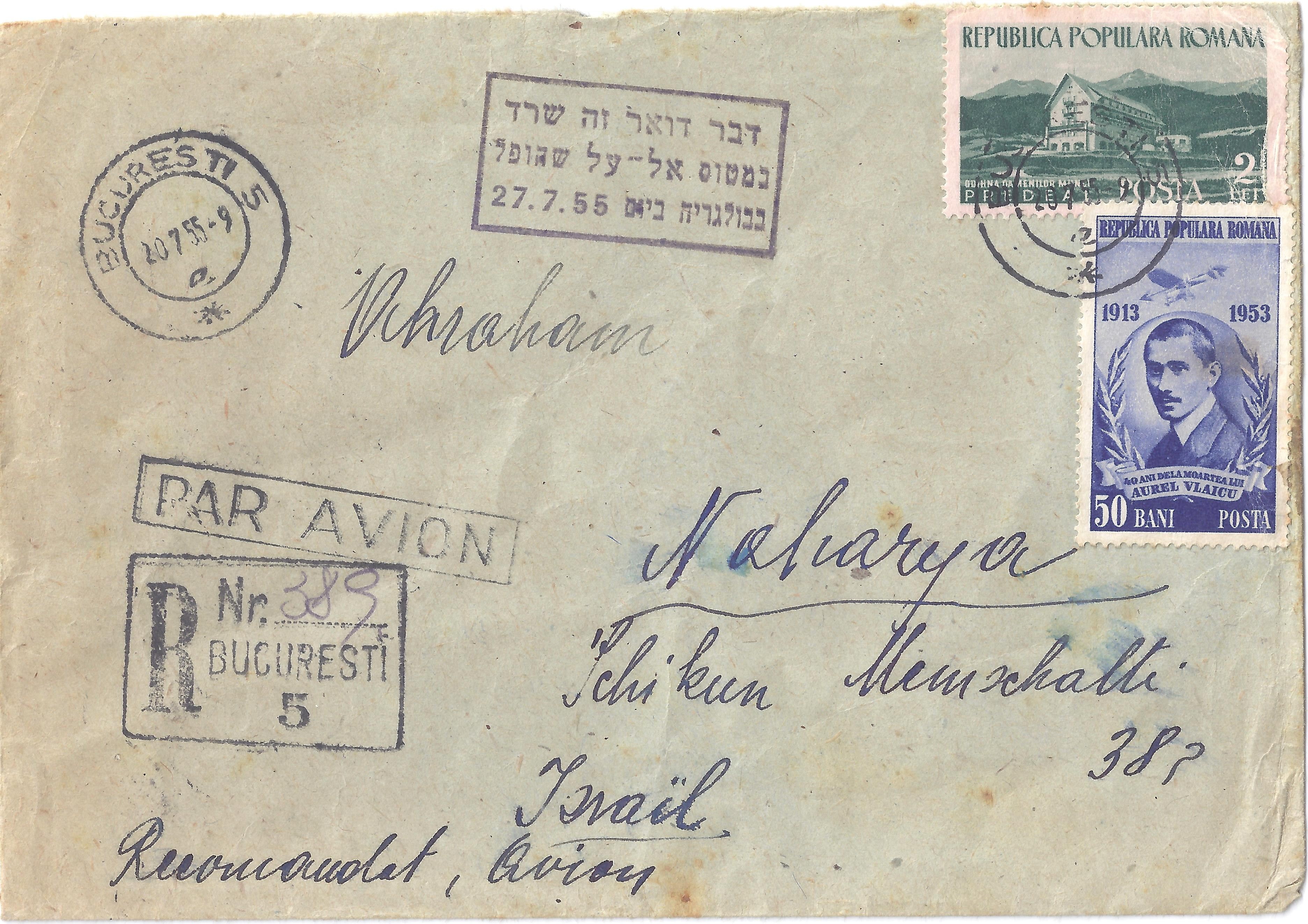 An envelope salvaged from the 1955 LY402 plane crash, carrying a Hebrew stamp stating "This postal item survived in the El Al plane which was shot down in Bulgaria on 27.7.55".